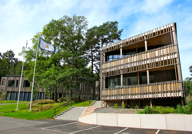 Kamratgården, the club house of IFK Göteborg situated in the Delsjö area in Göteborg (Gothenburg). The current club house was built in 2012–2013 and replaced the old club house on the same site.